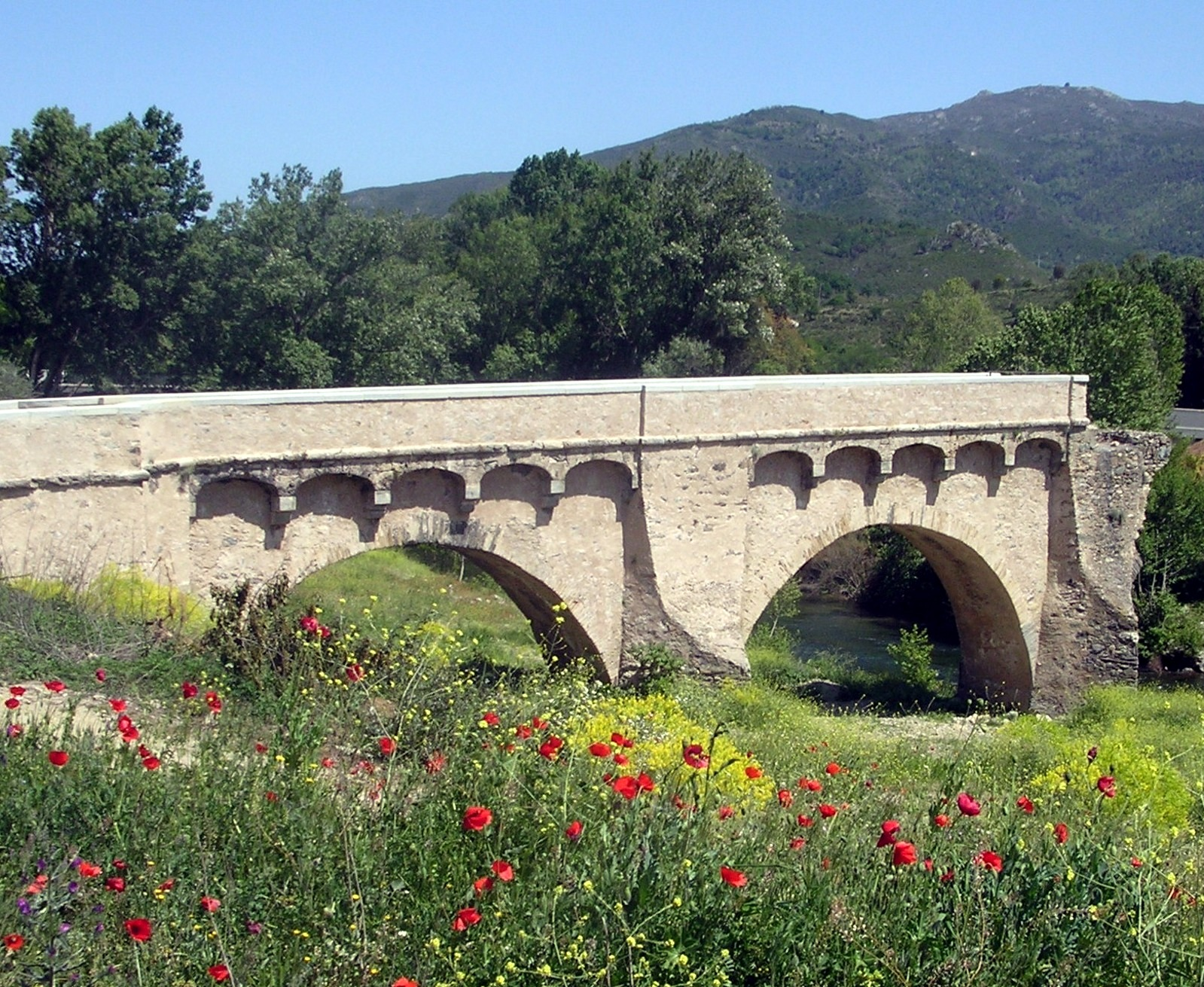 It's the famous bridge of Ponte Novu, in 2008. Beautiful partial restoration work. Corsu: Oghje u ponte bellu risurcitu, in aspettendu ch'ellu ci risorci sanu.